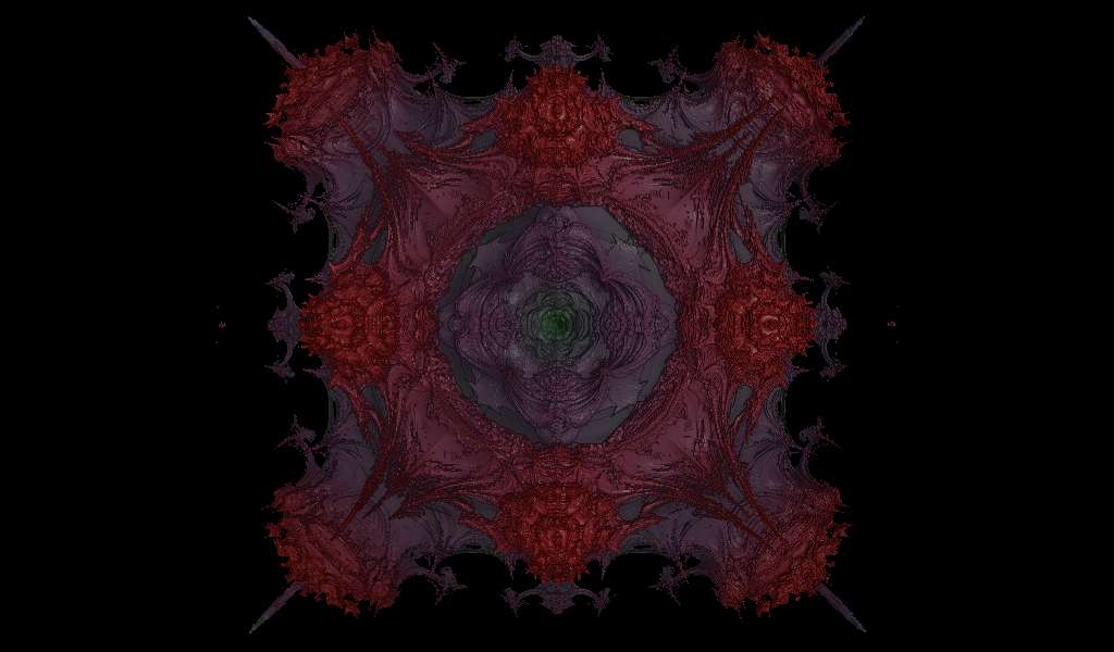 z^9 fractal